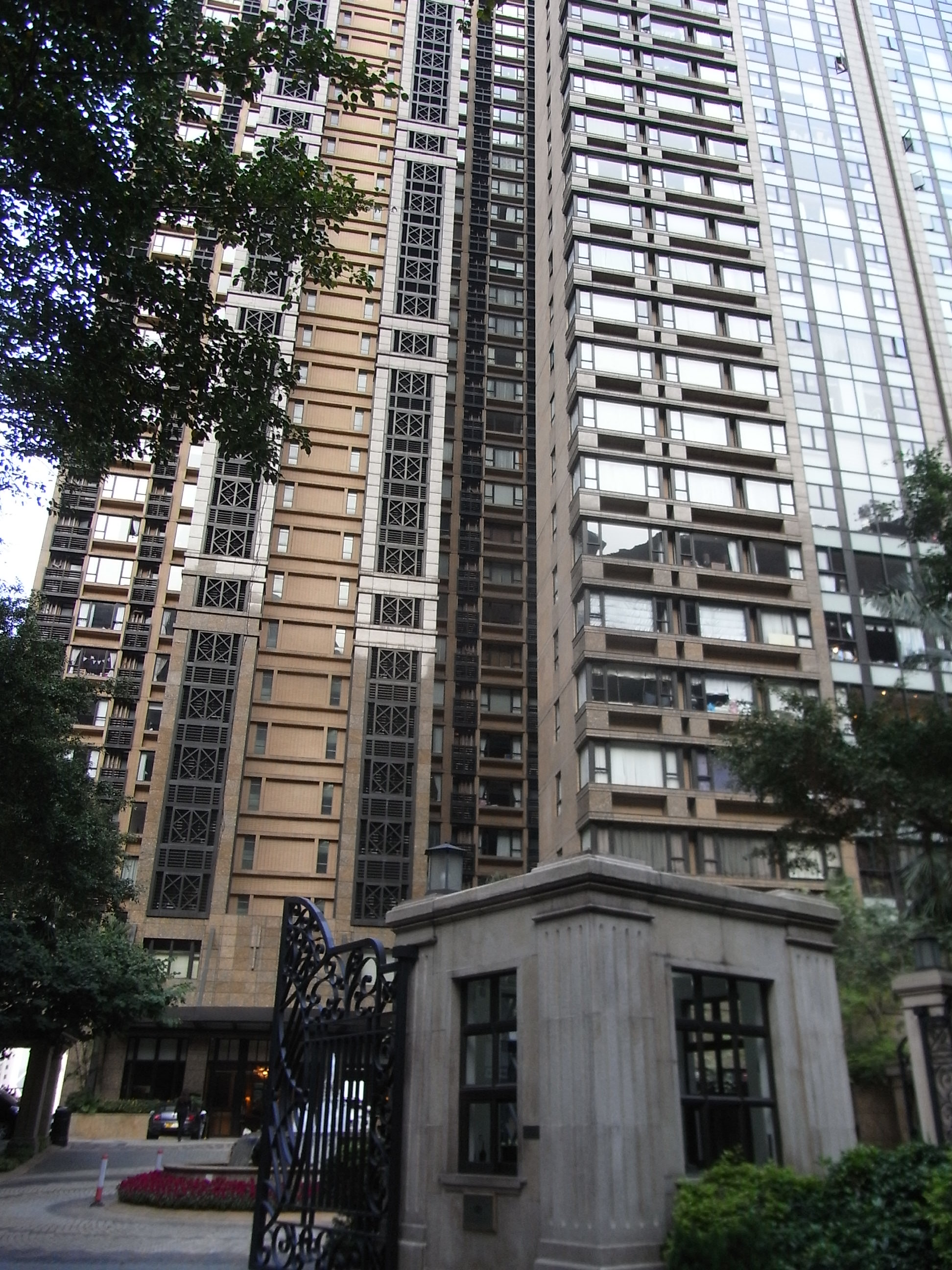 香港島半山區 地利根德里, Tregunter Path, Mid-levels, Central, Hong Kong